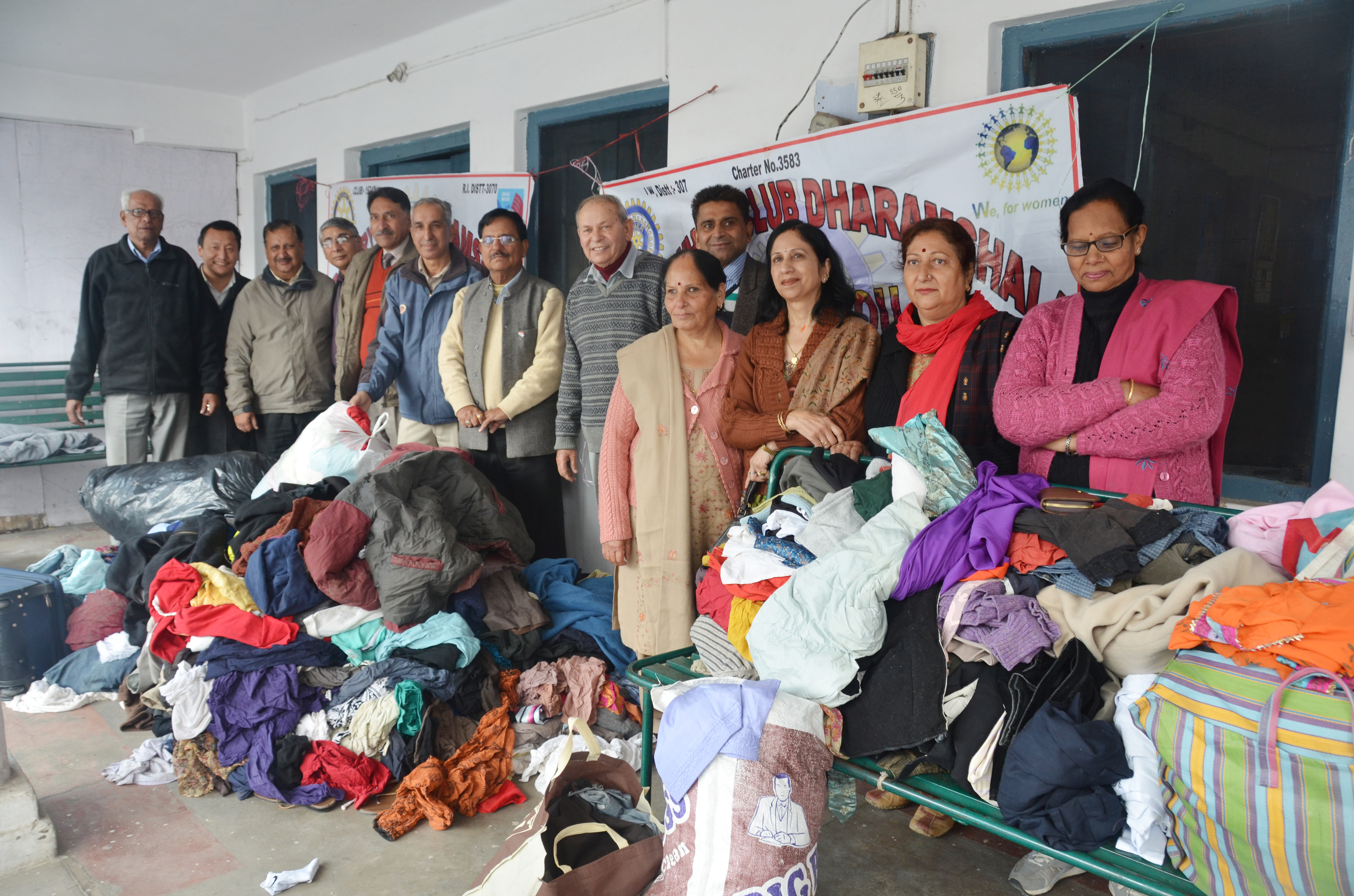 Lha Charitable trust and Dharamshala Rotary Club collect and distribute clothes to those that need them.